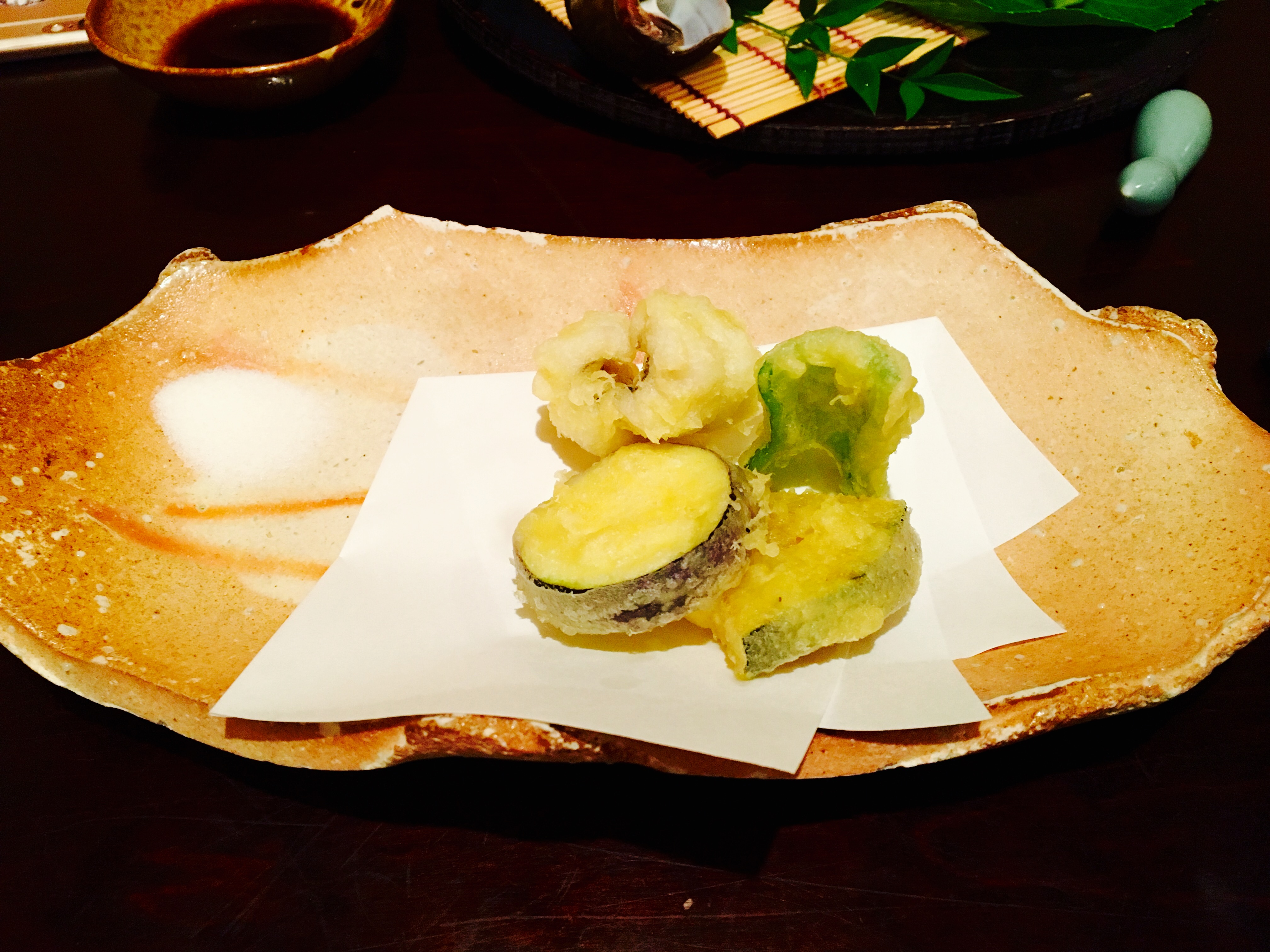 Tempura served with salt, served in a Kyoto restaurant